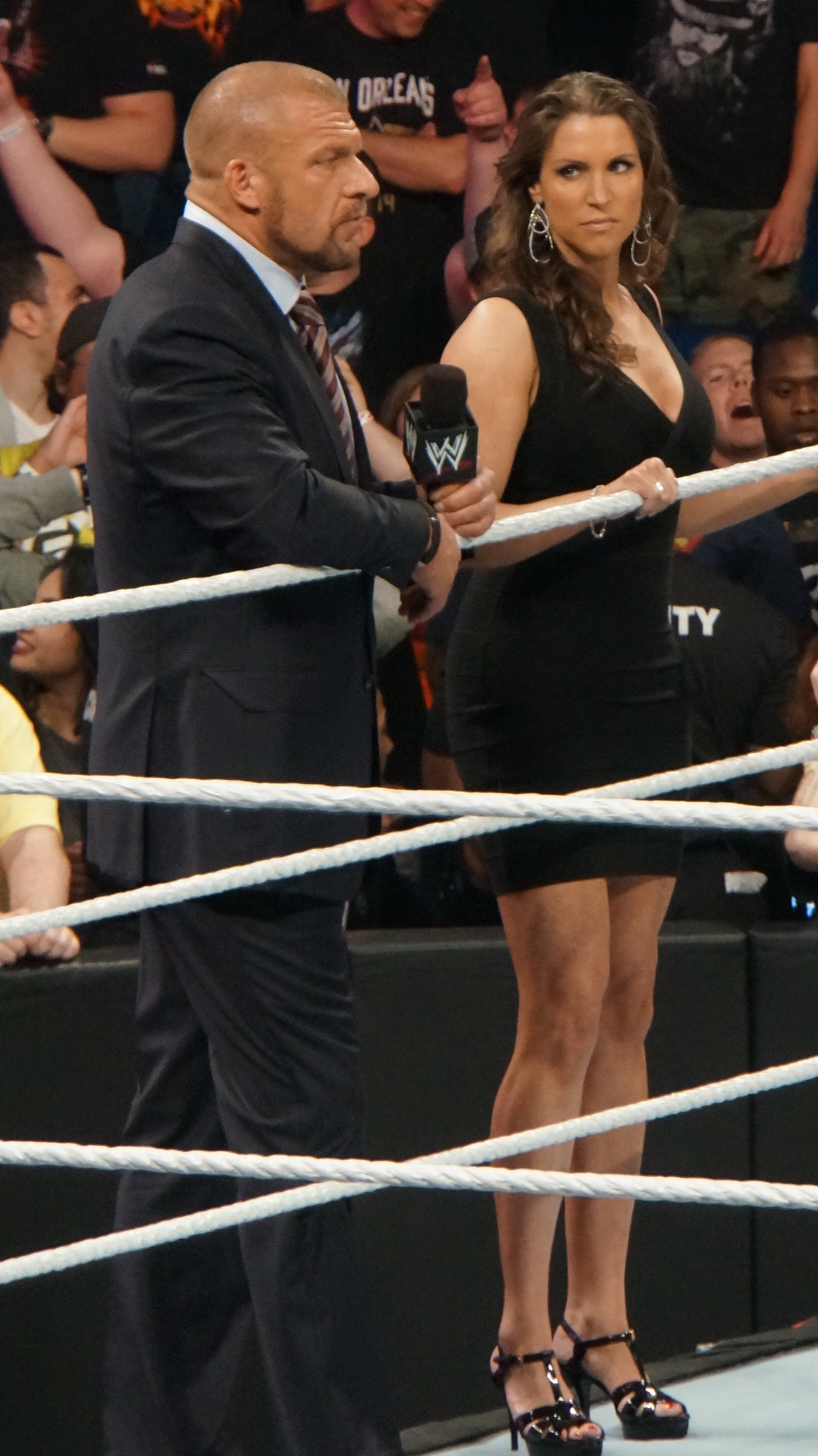 Triple H (left, real name Paul Michael Levesque) and Stephanie McMahon on the ring apron during the post-Wrestlemania RAW